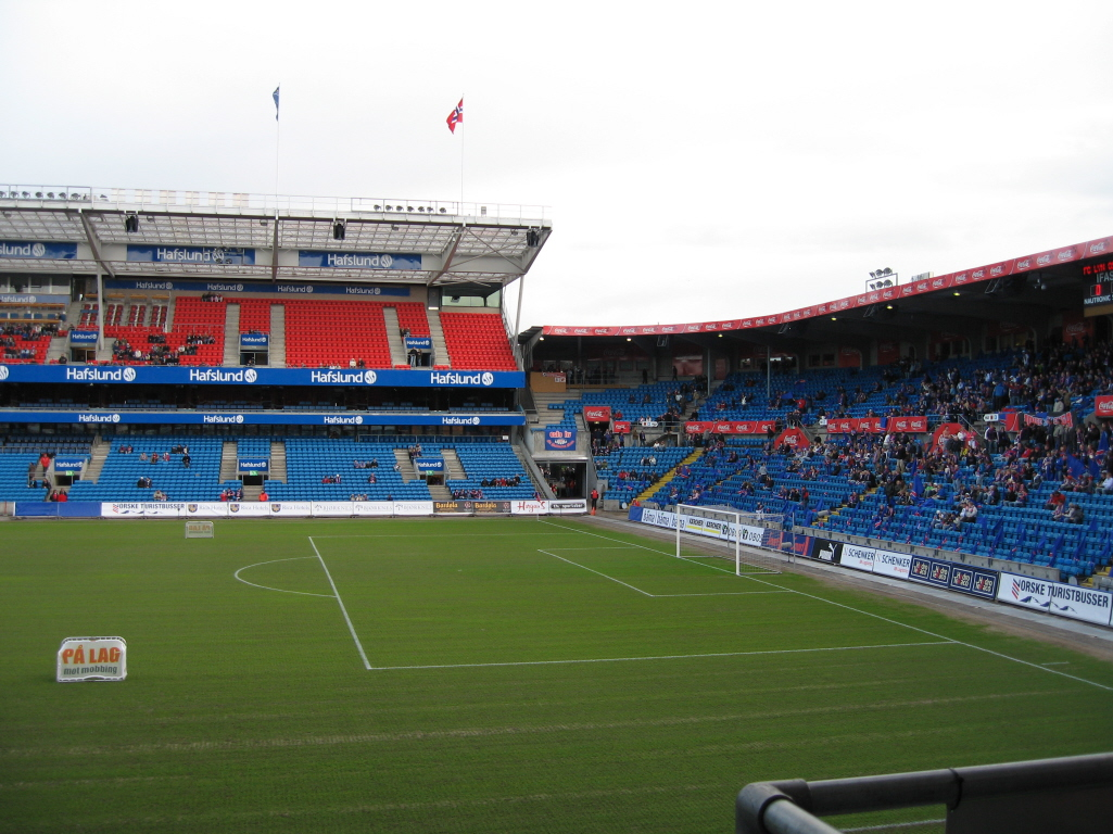 The Coca-Cola Stand of Ullevaal Stadion, Oslo, Norway.